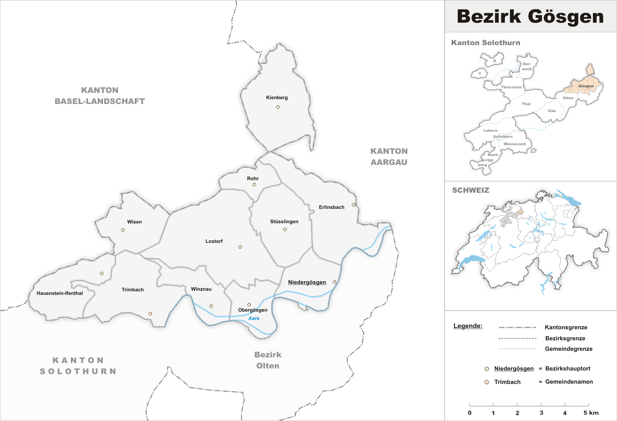 Municipalities in the district of Gösgen